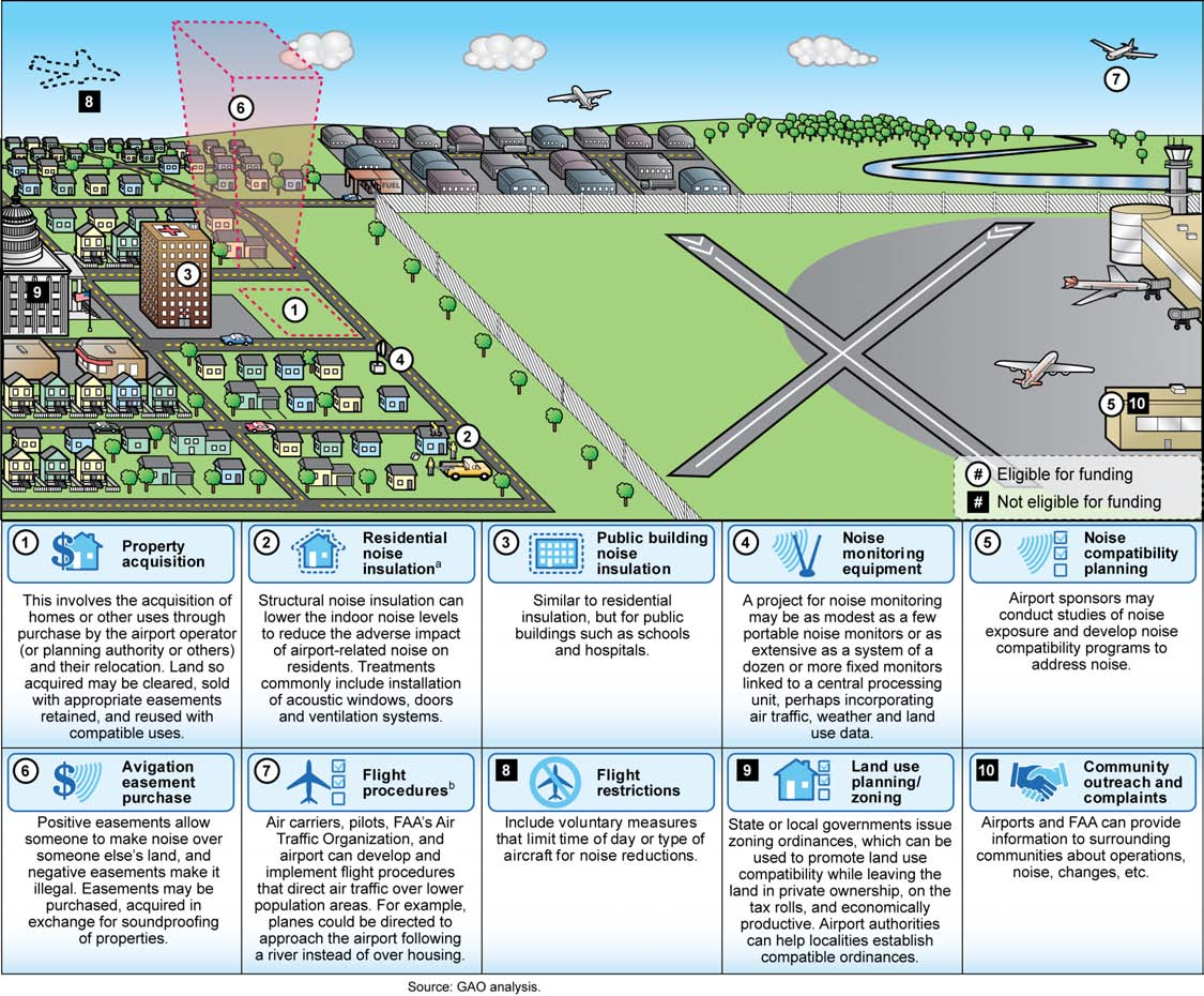 This image is excerpted from a U.S. GAO report: AIRPORT NOISE GRANTS: FAA Needs to Better Ensure Project Eligibility and Improve Strategic Goal and Performance Measures a Beginning October 1, 1998, FAA only approves noise mitigation measures for incompatible development existing as of that date. b FAA Modernization and Reform Act of 2012 allows FAA to provide noise grants for airports to complete environmental reviews and assessment activities for proposals to implement flight procedures as part of an airport noise compatibility program (Pub. L. No. 112-95, § 504).